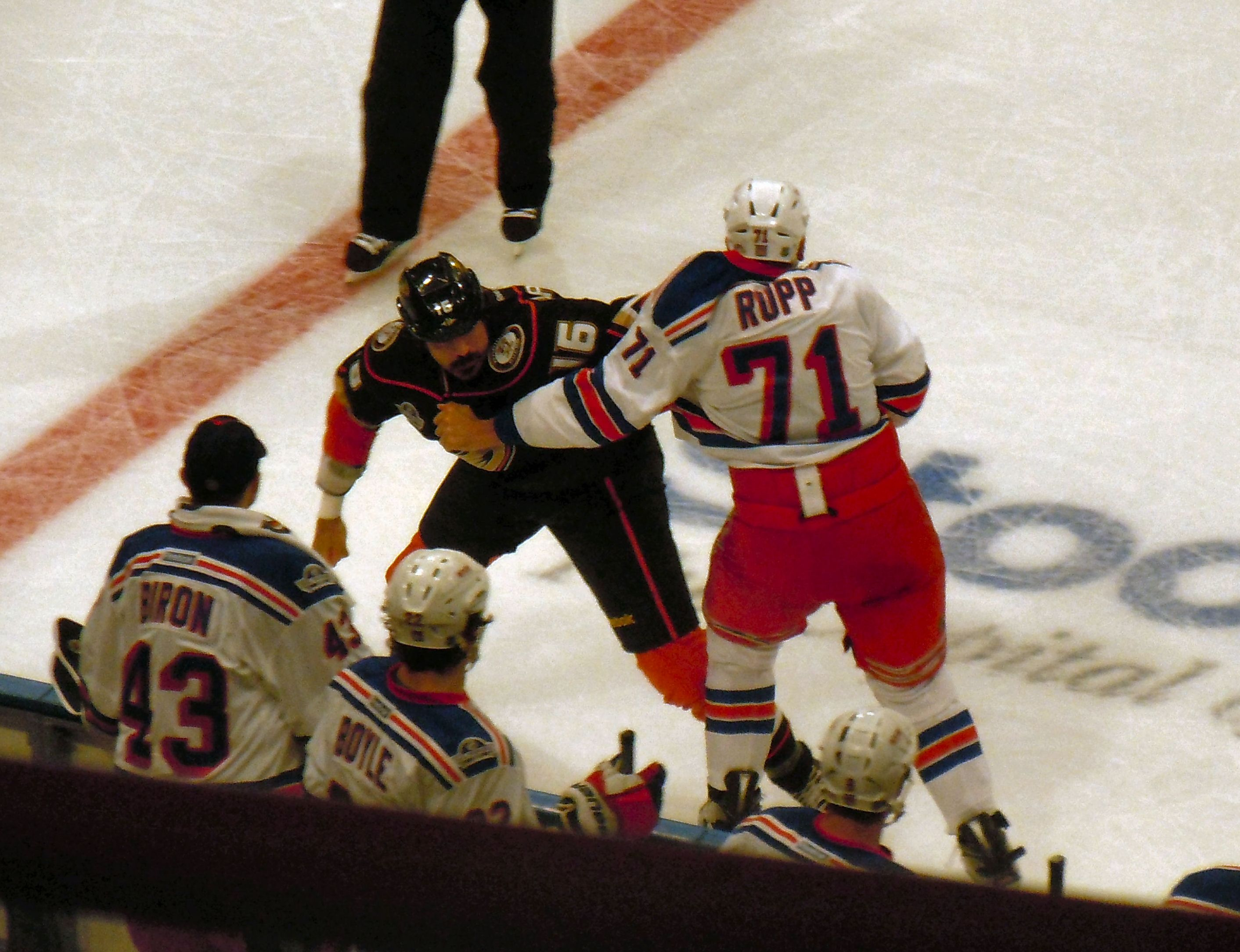 Anaheim-New York Rangers @ Stockholm, 2011